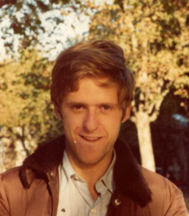 Claudio Slemenson